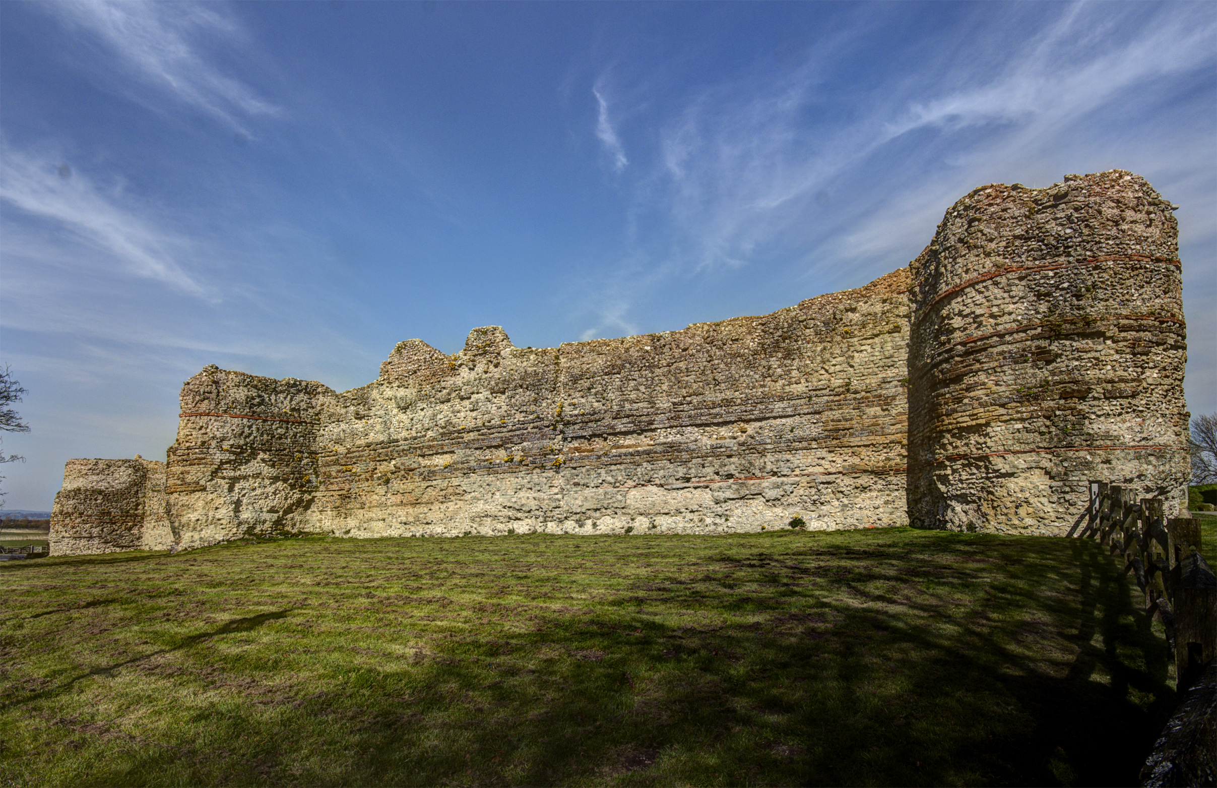 West wall of Pevensey Castle, East Sussex